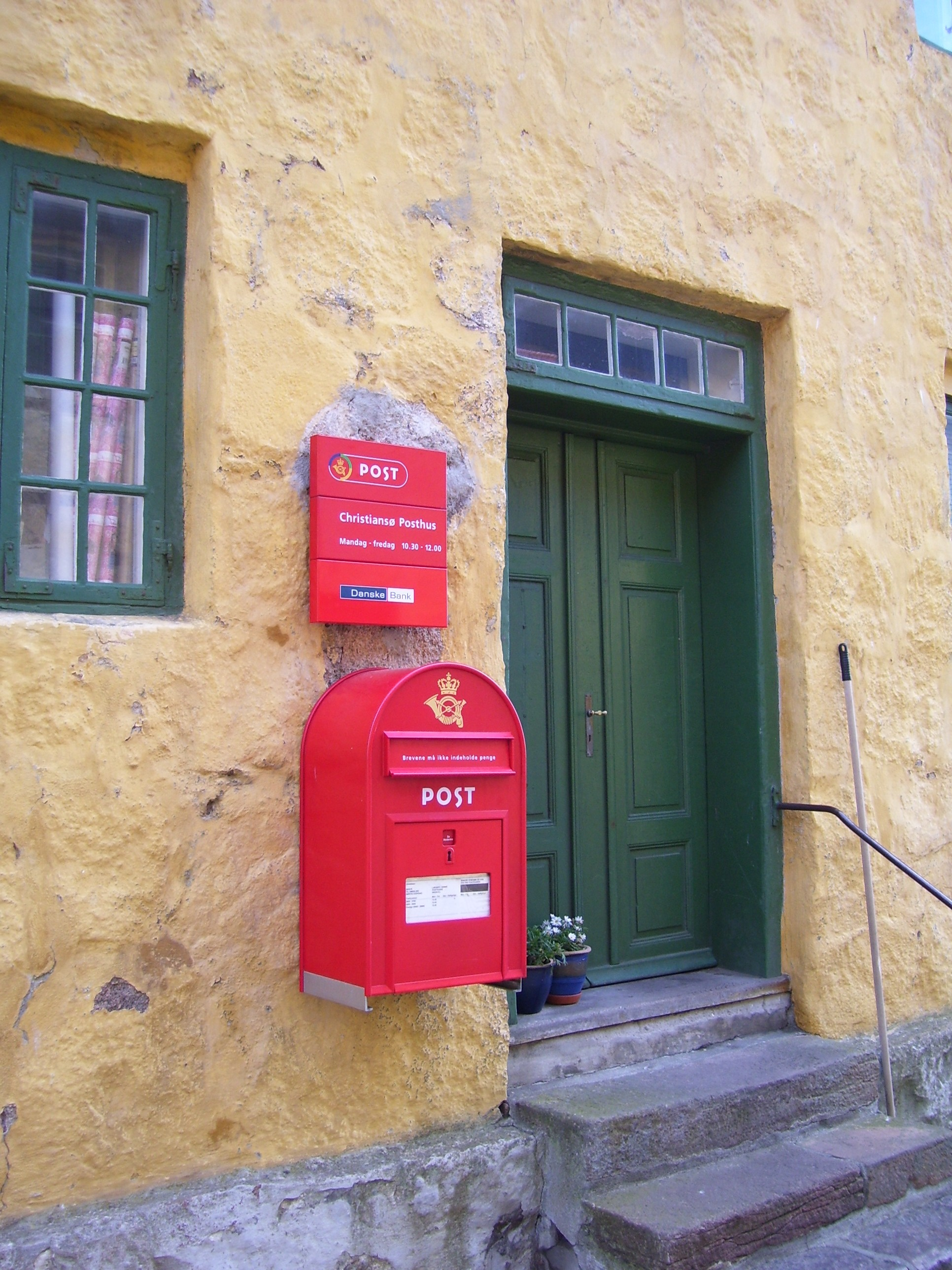 Post office in Christiansø, Denmark.